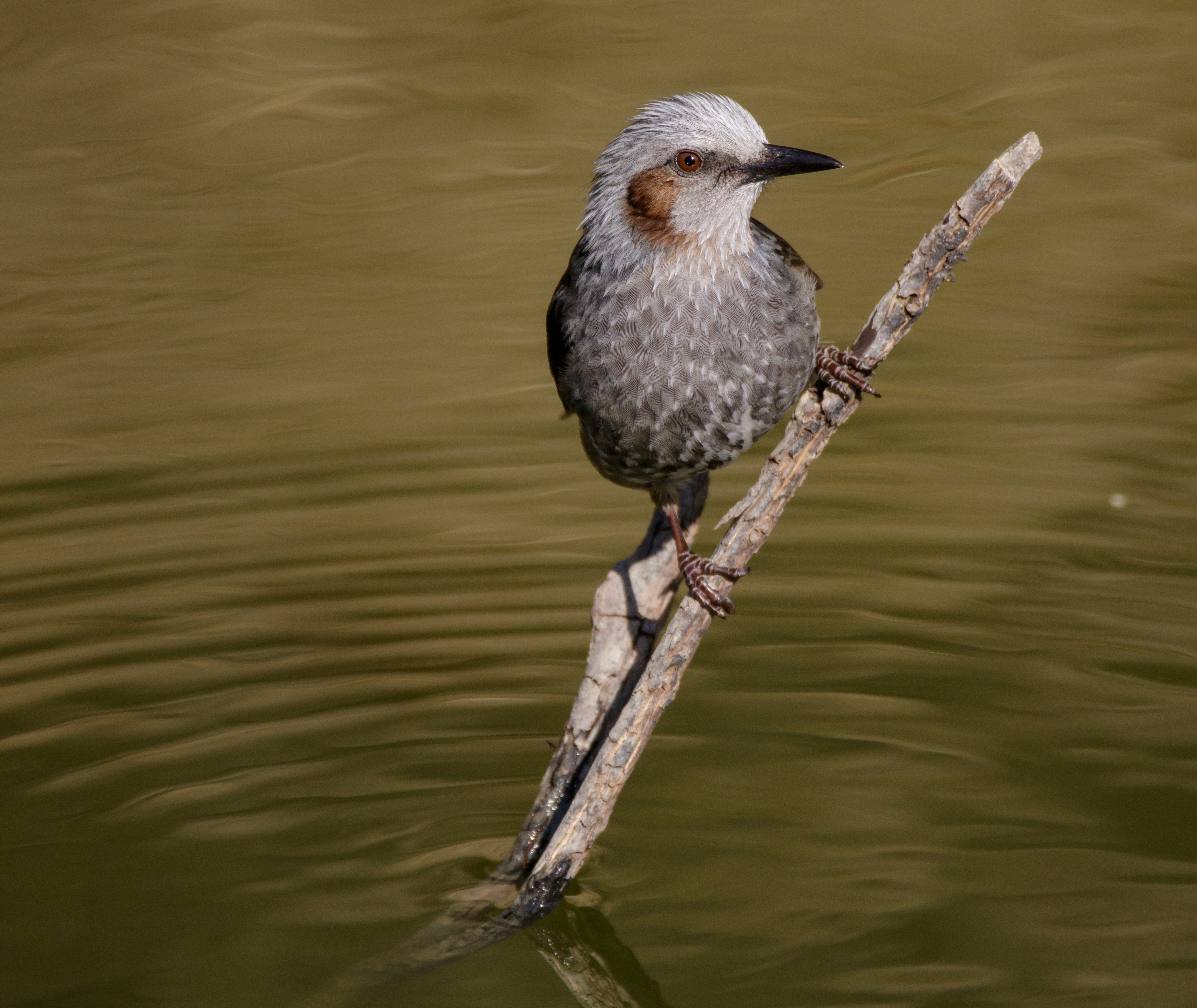 Brown-eared bulbul at Tennōji Park in Osaka.